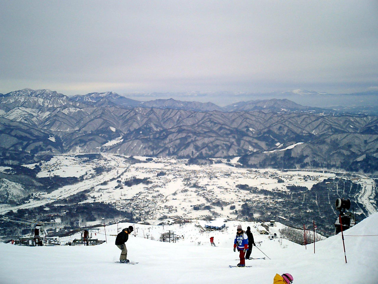 Happouone ski area in Hakuba village, Nagano, Japan.